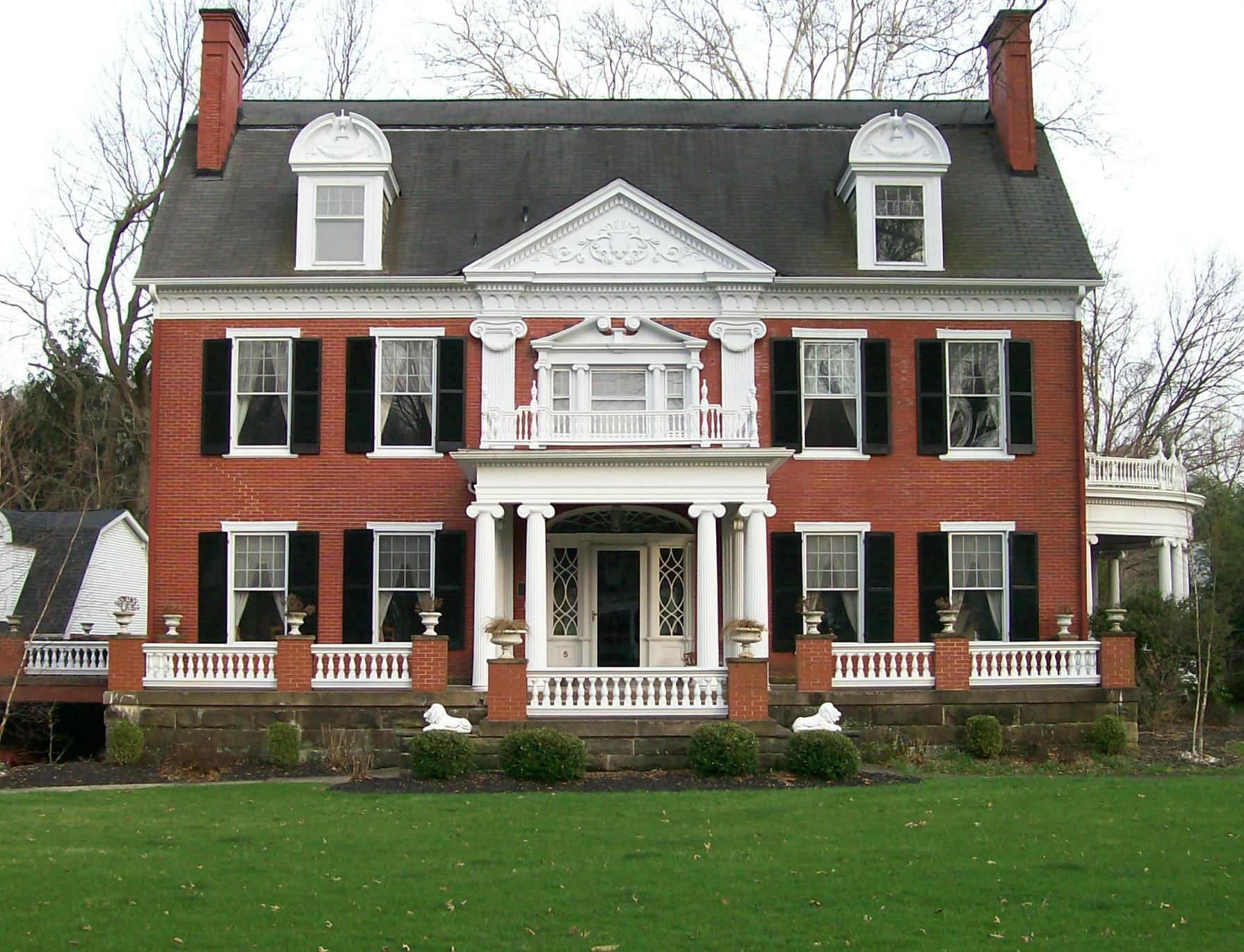 William Miles Tiernan House at 5 Kenwood Place in Wheeling WV. The house was placed on the NRHP in 1993. Taken looking south towards the house.